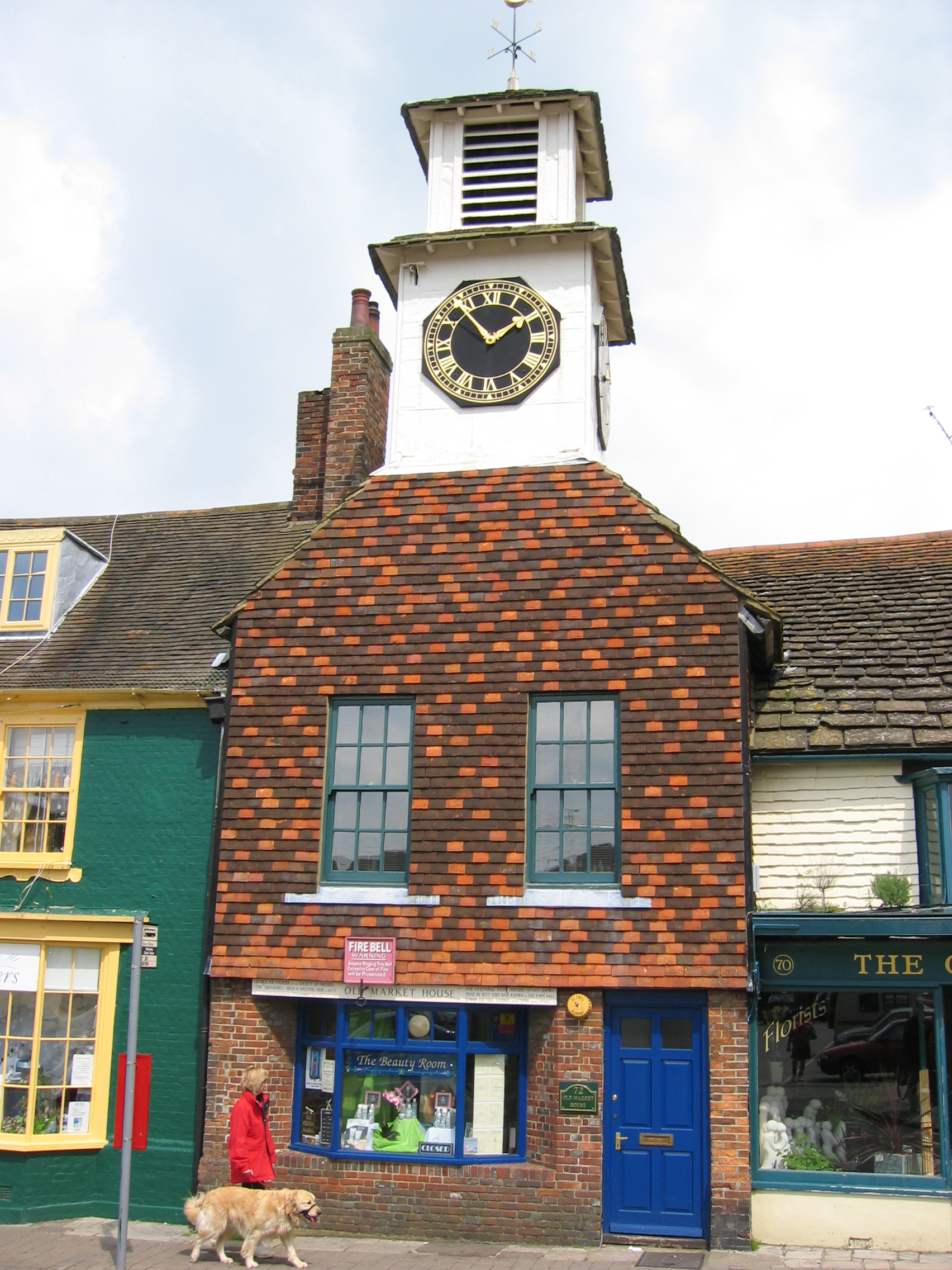 Photograph of Clock Tower, High Street, Steyning, West Sussex, England. Taken on May 9, 2004 by Martin Tod. Not the best picture of Steyning that I've ever seen, but the only one I currently have on my hard drive.